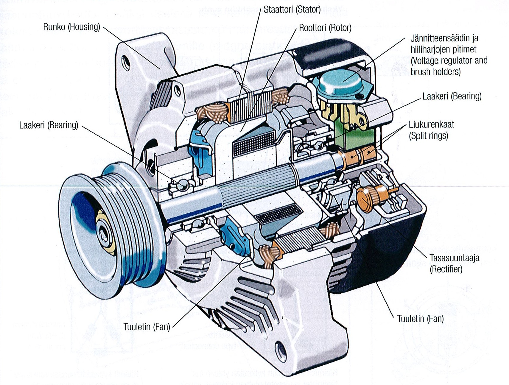 Illustrative drawing of an automobile alternator